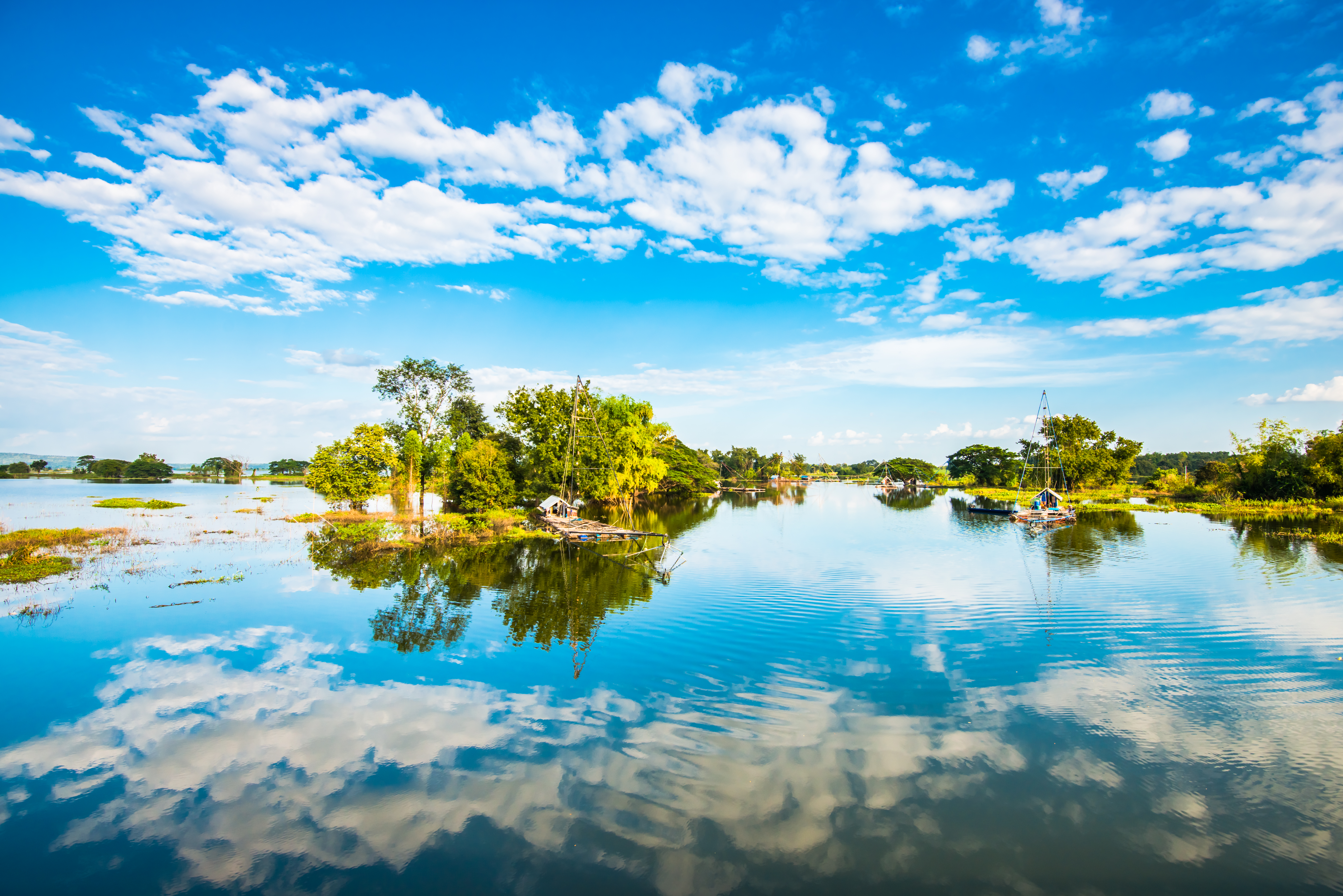 Water resources in Thailand distributed in different regions.